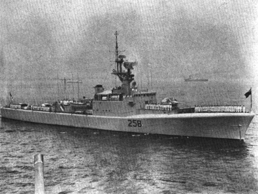 The Royal Canadian Navy escort destroyer HMCS Kootenay (DDE 258) takes part in ceremonies connected with the opening of the St. Lawrence Seaway, circa 1959.